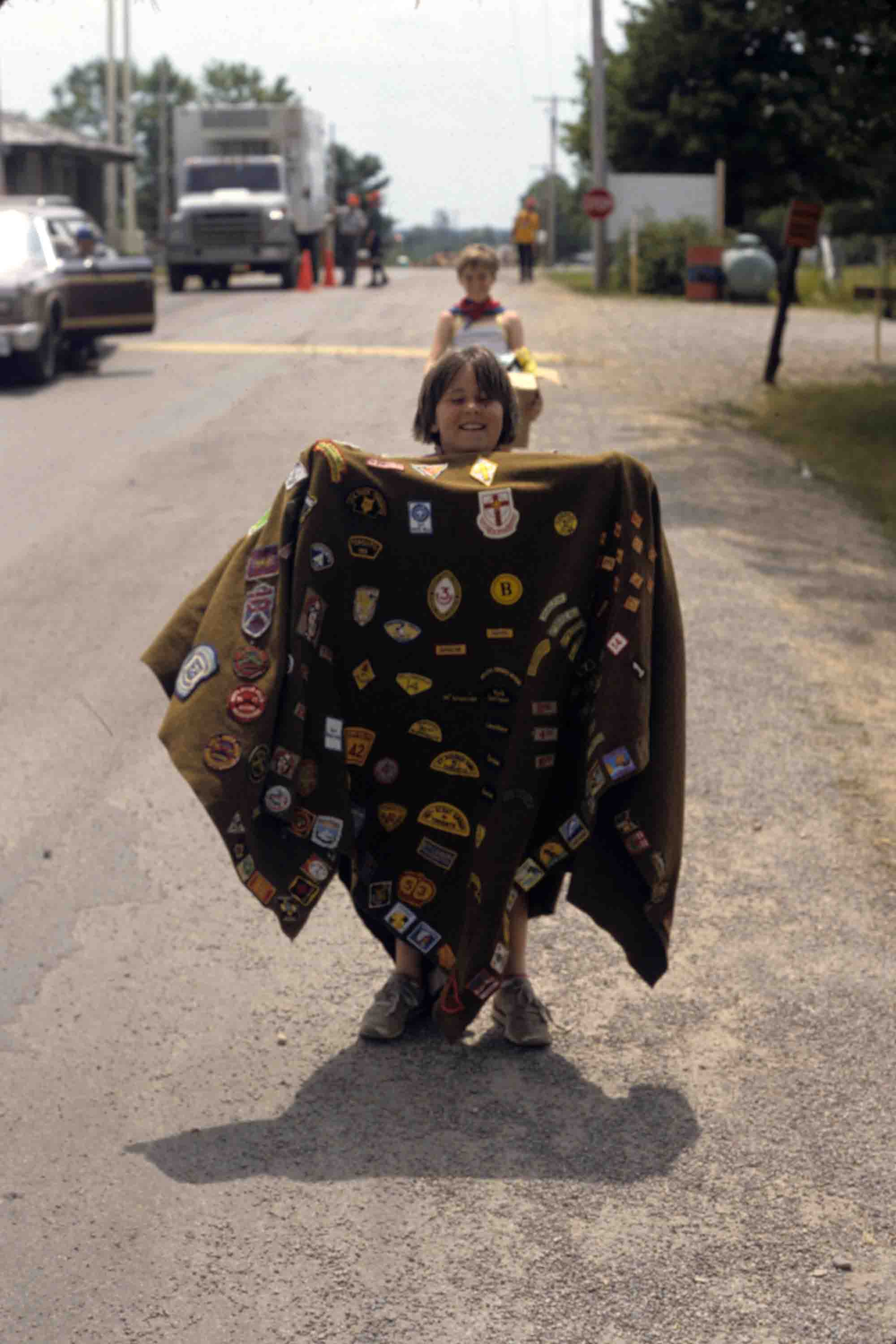 Scout poncho with scout and related camping badges contains Canadian, USA and foreign Scout awards and badges 1939-1978.